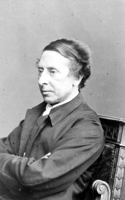 photograph of Charles Voysey by Henry Joseph Whitlock (1835-1918), albumen carte-de-visite, 1860s. Cropped, Greyscaled, levels adjusted. N.B. I assume that because this photo is from a carte-de-visite which were designed to be distributed to people that this meets the US definition of publication.